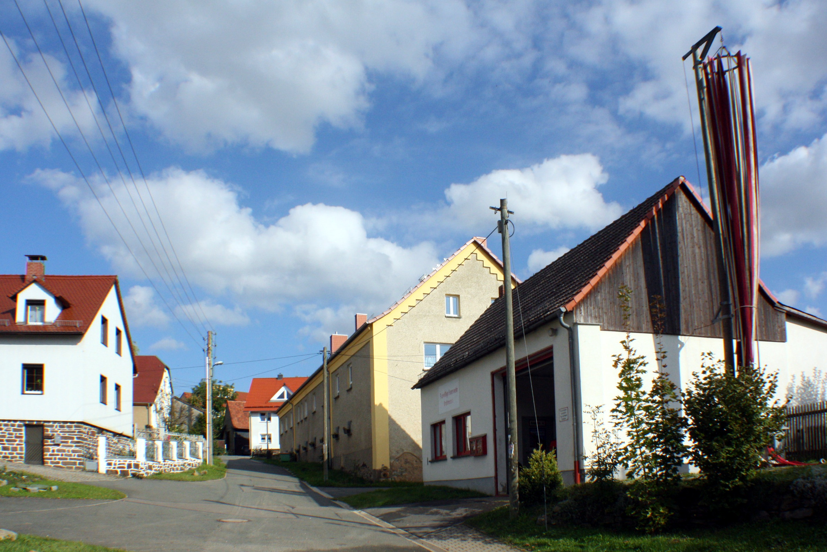 View into Brahmenau-Culm near Gera/Thuringia